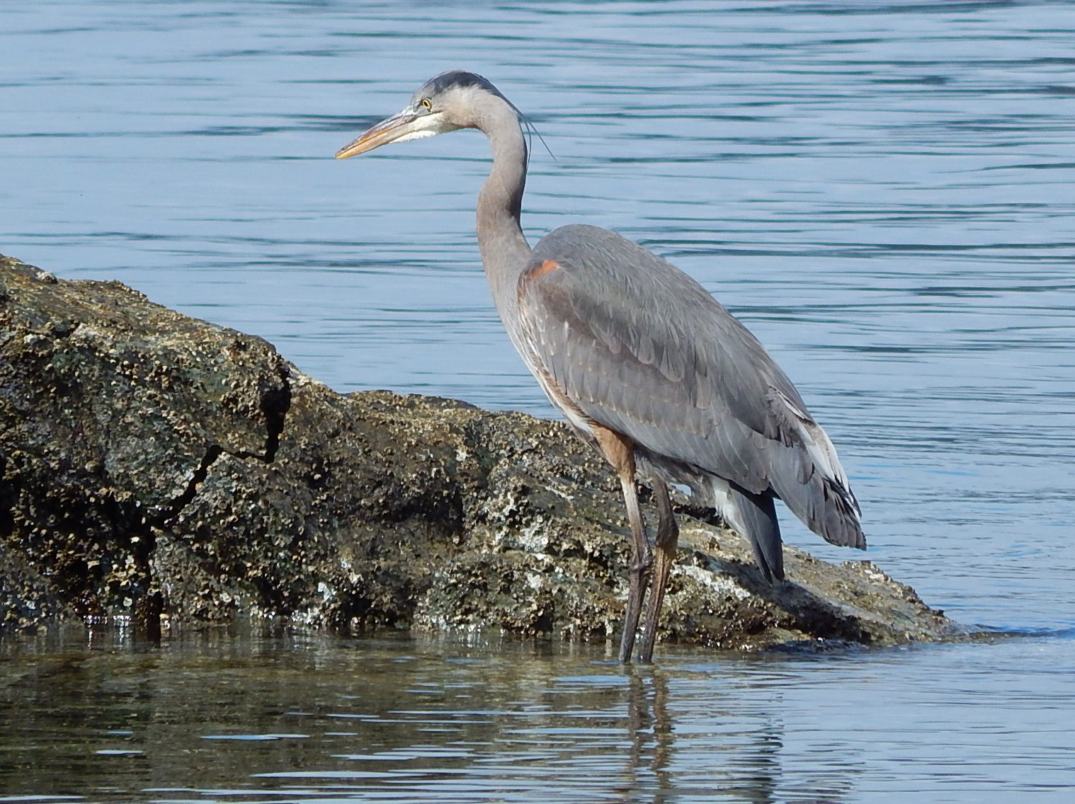 Great Blue Heron at Seahurst Park in Burien, Washington.